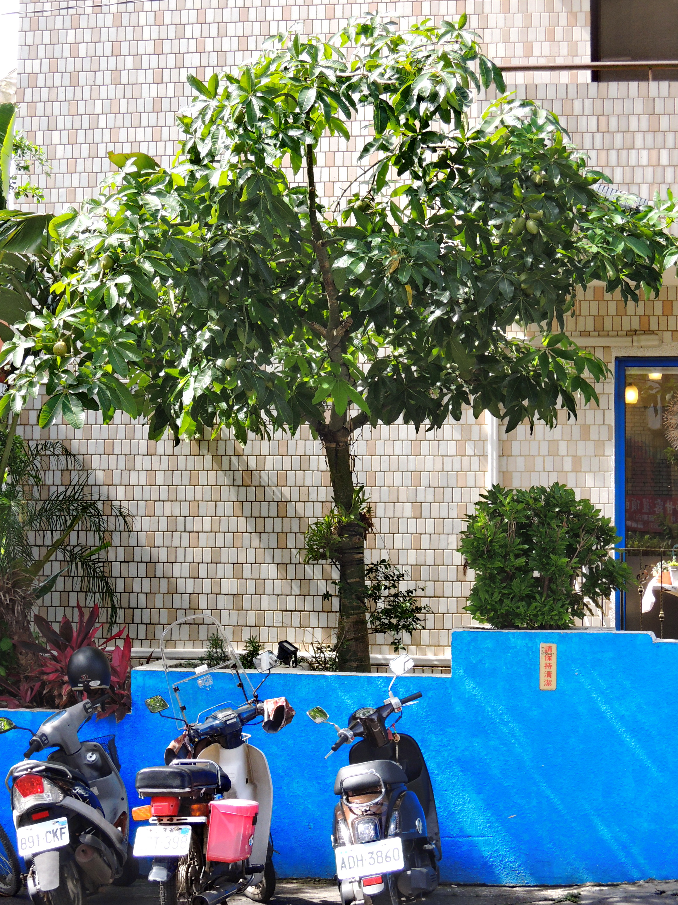 Pachira aquatica, also known as Malabar chestnut. Photo was taken at 605 Wenya Street, Chiayi City, Taiwan.